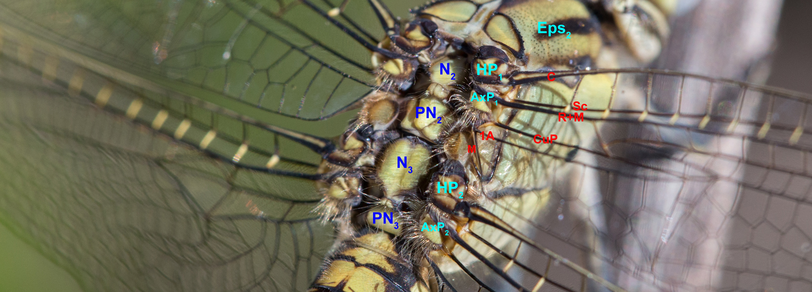 Dorsal view of Blue Skimmer Dragonfly (Orthetrum caledonicum) with legend.